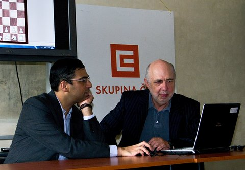 After a simultaneous exhibition for a chess festival in Prague, world champion Vishy Anand analyzes one of the games with Lubomir Kavalek for the public.